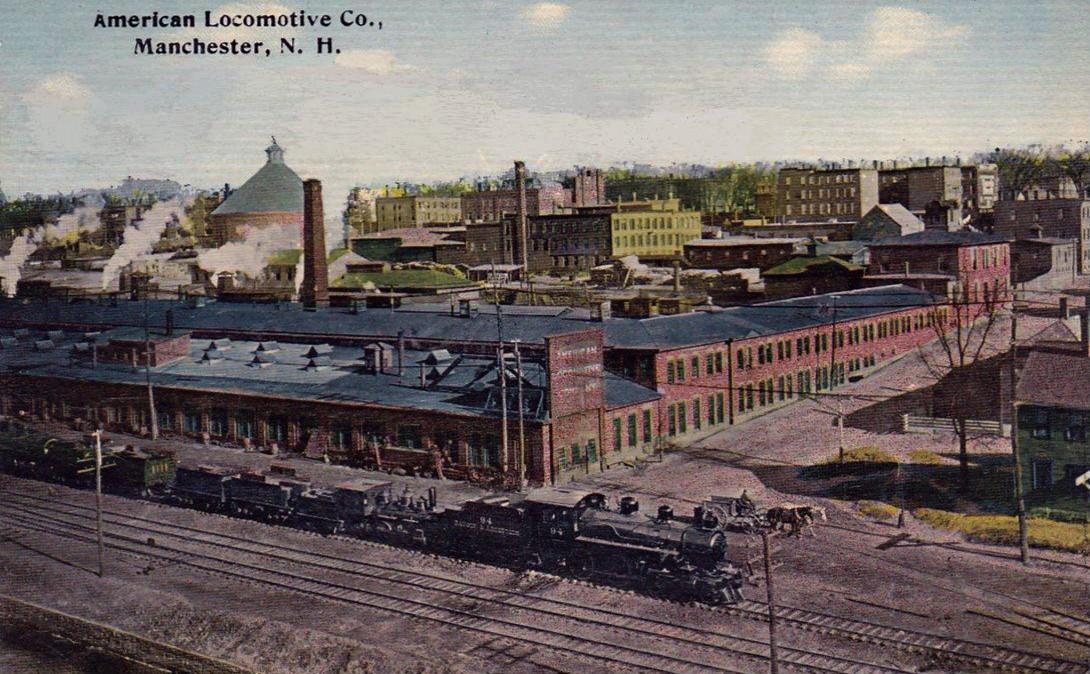 Postcard photo of the American Locomotive Works (ALCO) factory in Manchester, New Hampshire. This factory was formerly known as the Manchester Locomotive Works before it was bought by ALCO in 1900. A Bangor and Aroostook locomotive is seen on the tracks at the factory.